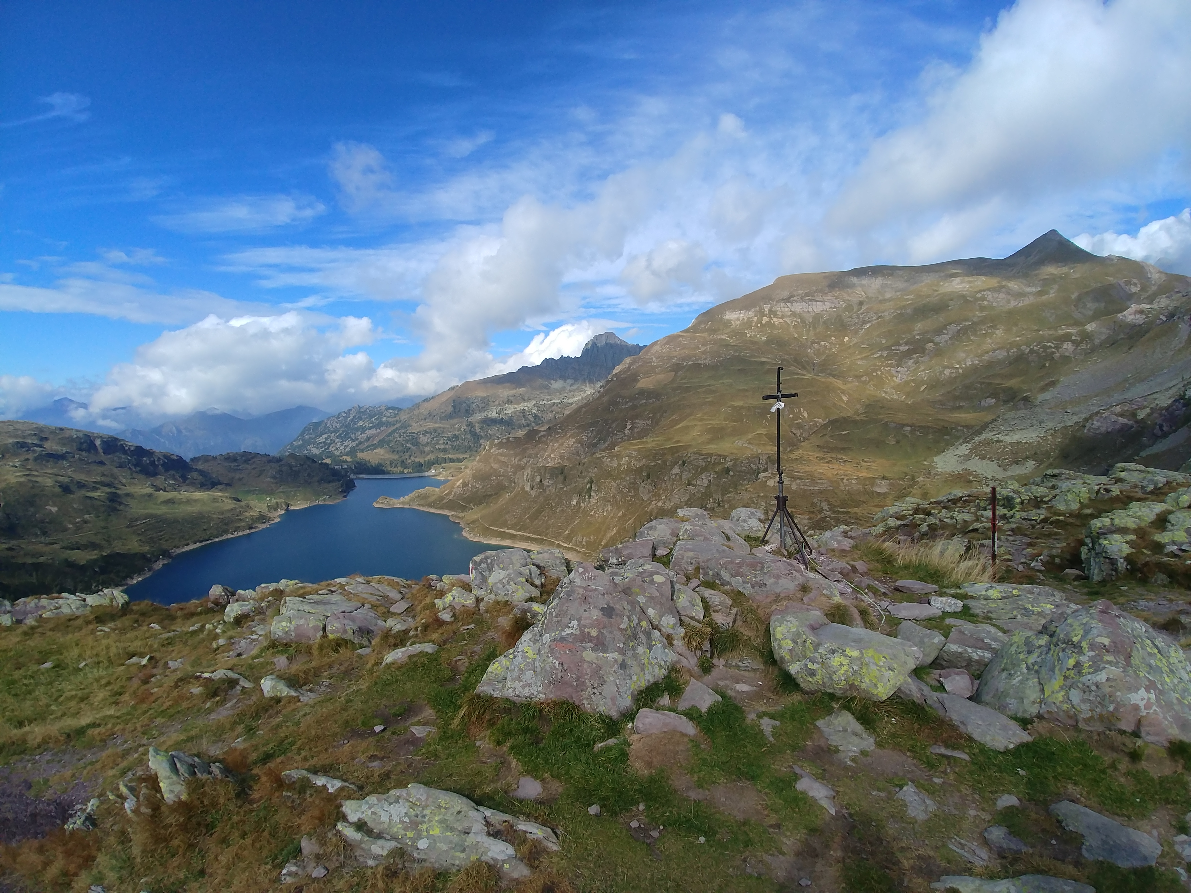 View from Laghi Gemelli pass